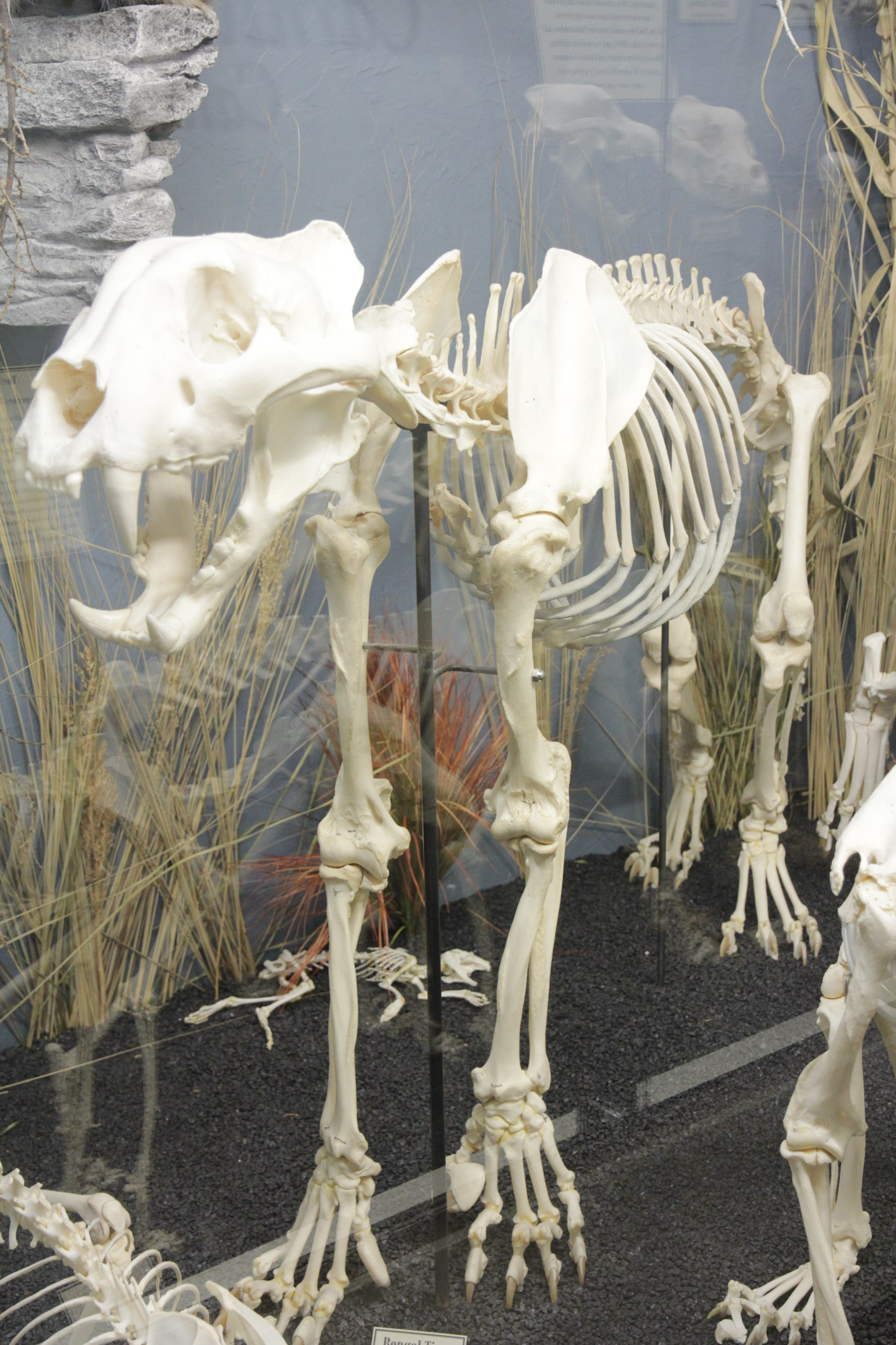 Skeleton of a Bengal tiger, Museum of Osteology